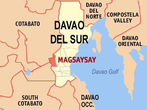 Map of the Davao del Sur showing the location of Magsaysay